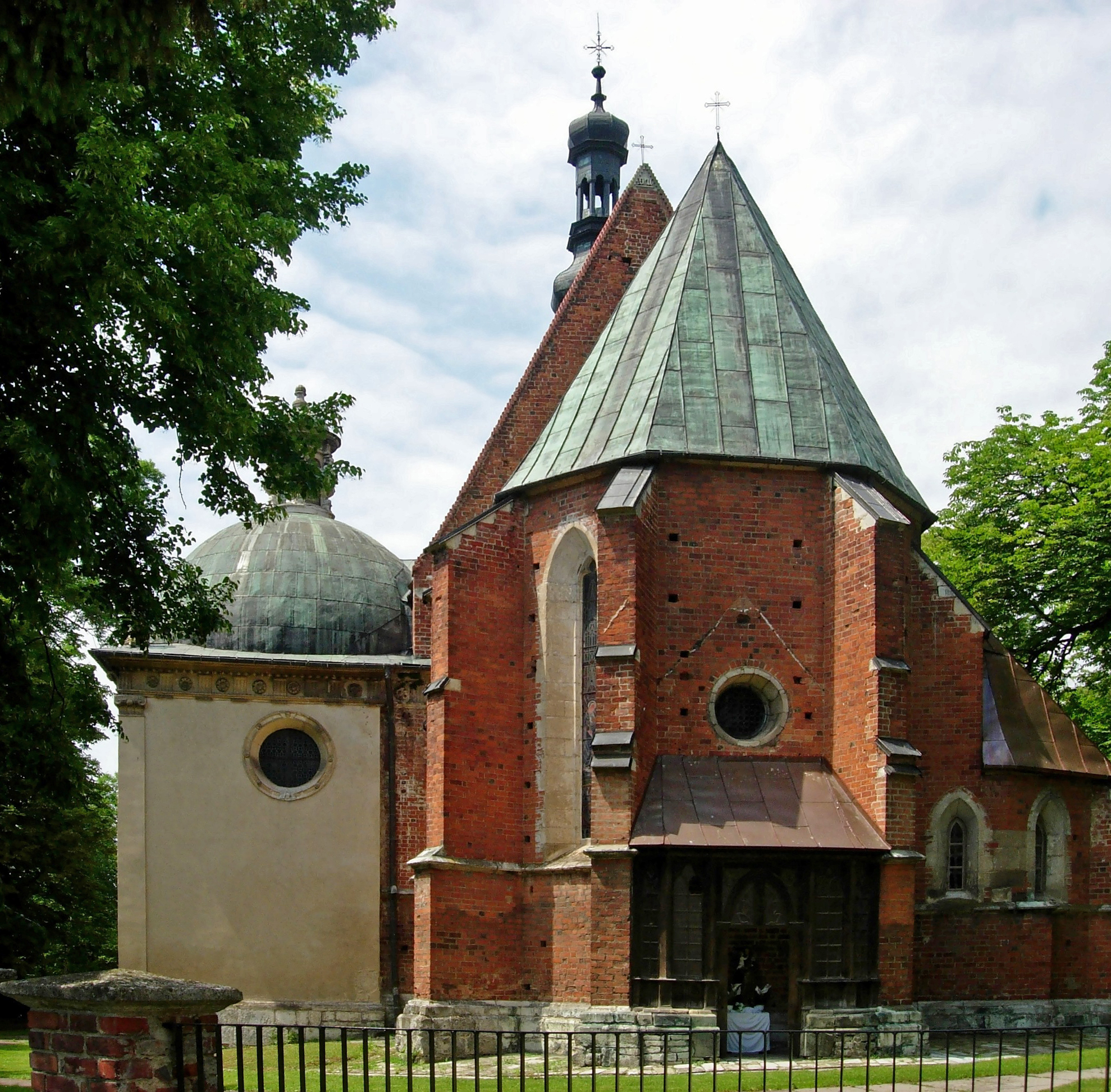 Saint Nicholas Church in Bejsce, Poland